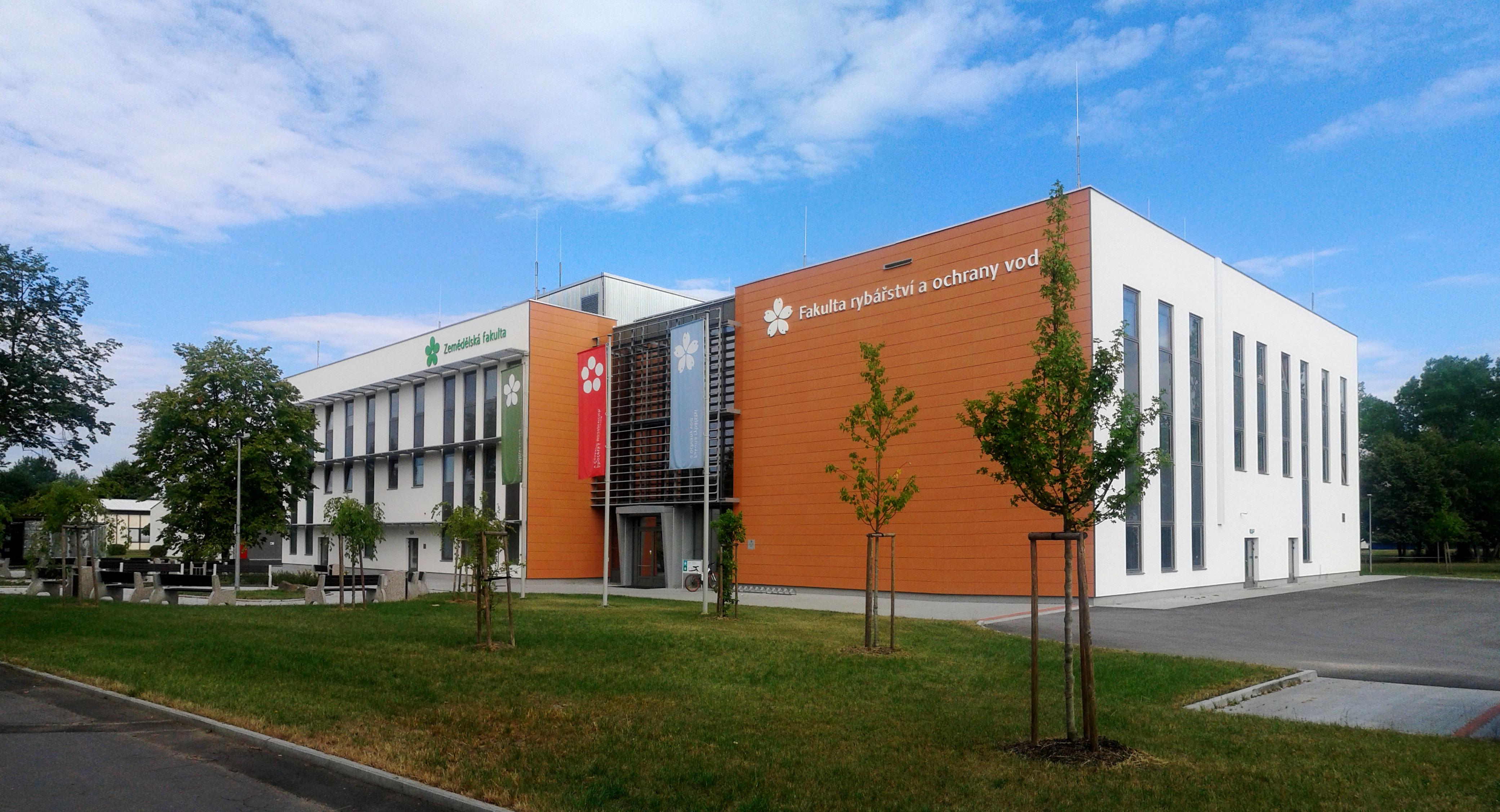 One of the buildings used by the Faculty of Agriculture and the Faculty of Fisheries and Protection of Waters of the University of South Bohemia in České Budějovice, Czech Republic, Na Sádkách Street No 1780.